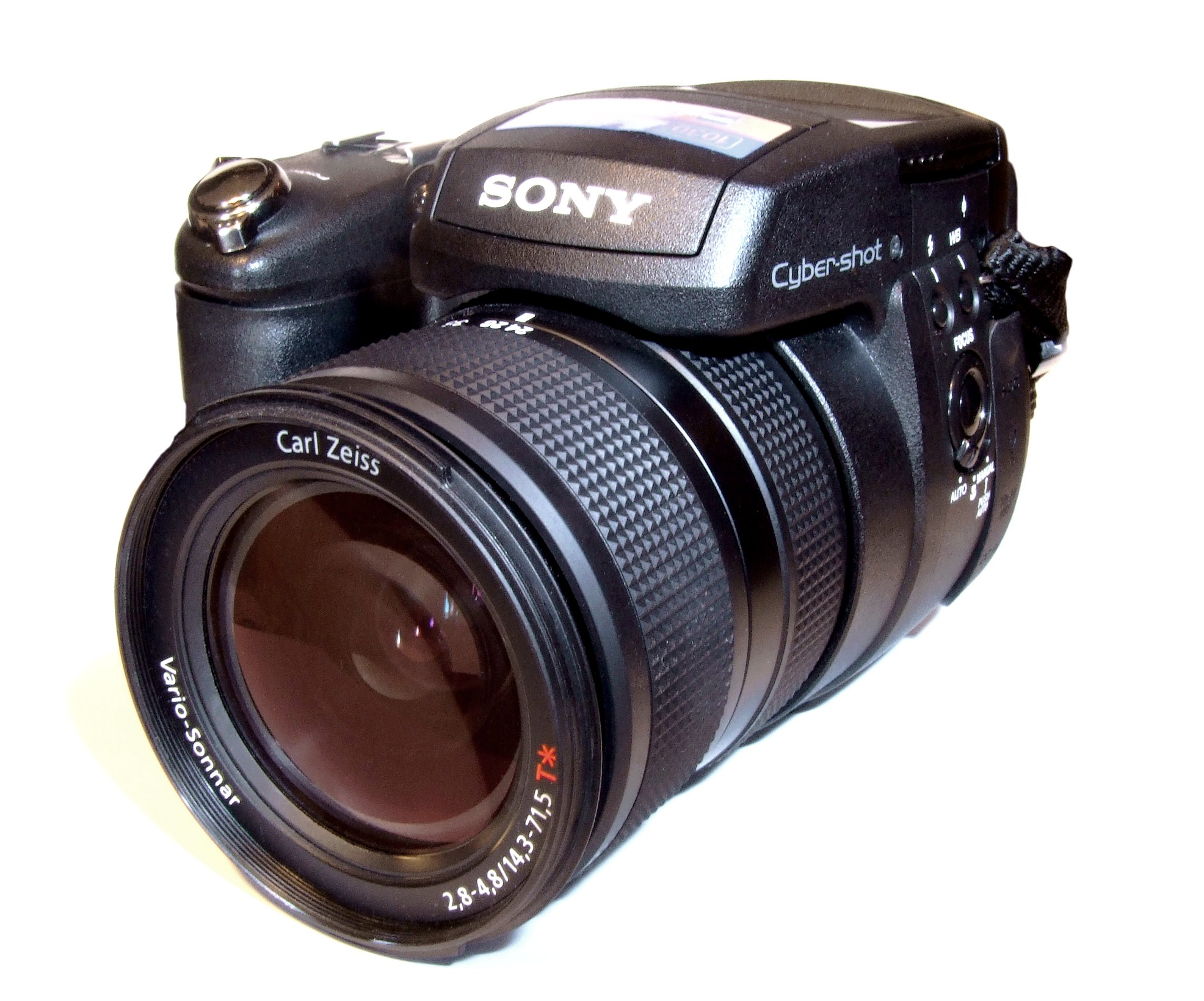 Sony Cybershot R1